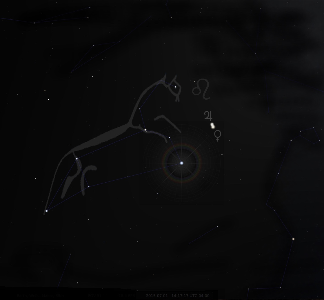 A depiction of the Venus Jupiter conjunction in Leo of 1 July 2015 at 14:17 UT, with symbolic elements